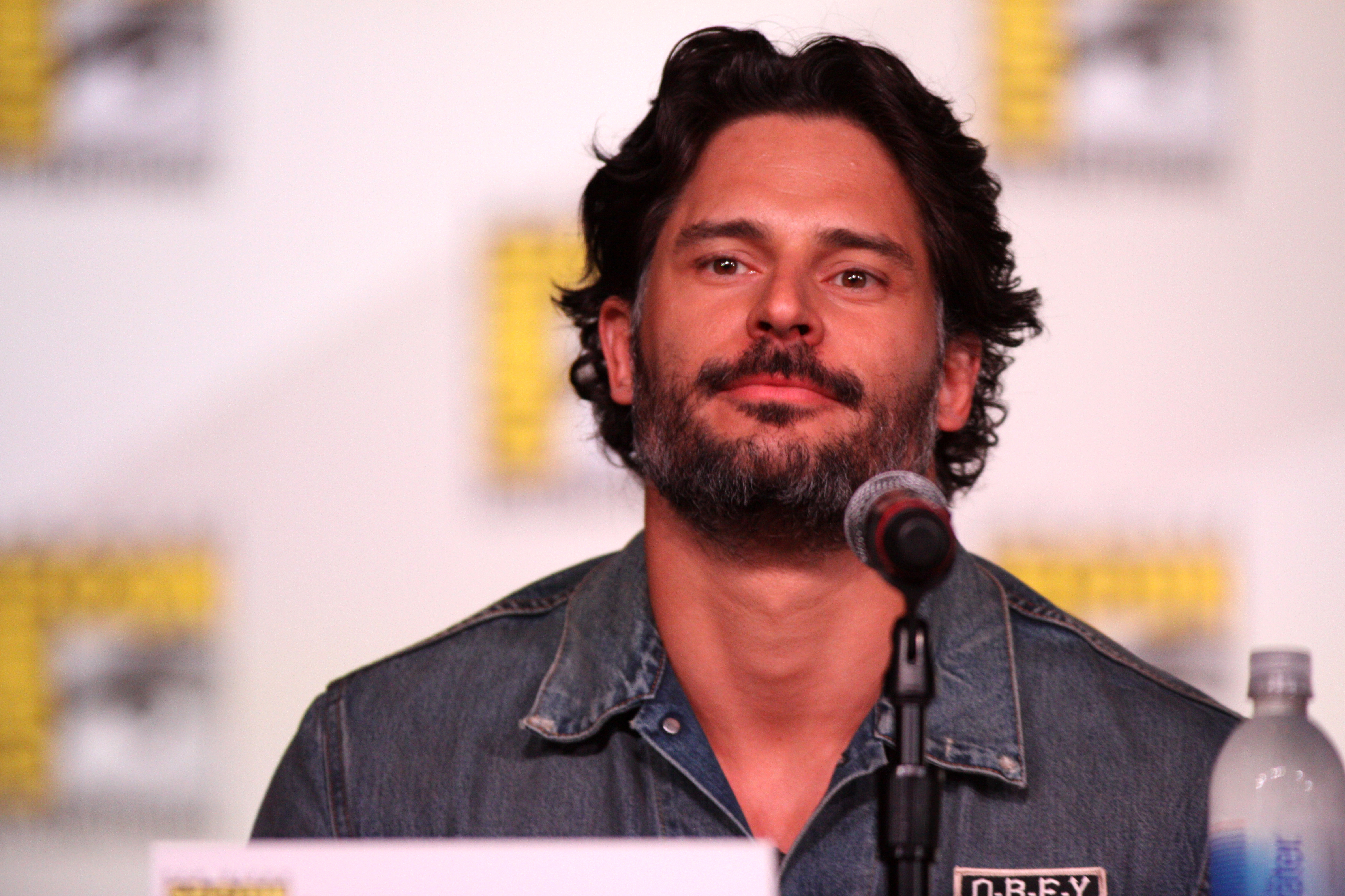 Joe Manganiello speaking at the 2012 San Diego Comic-Con International in San Diego, California.